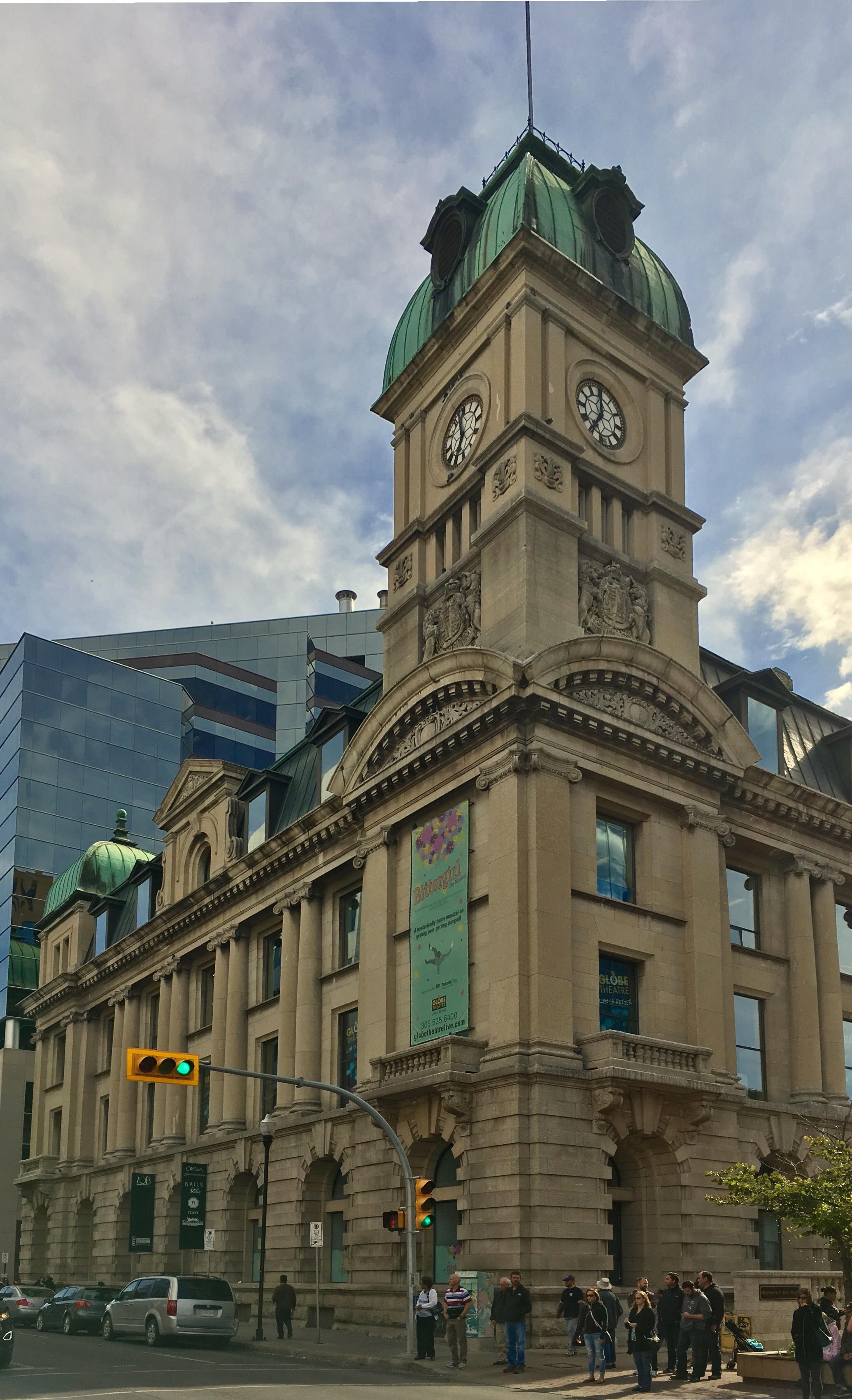 Old Post Office on Scarth Street Mall, Regina, Saskatchewan, Canada